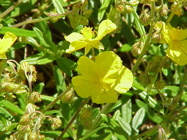 Species: Helianthemum nummularium Family: Cistaceae Image No. 1